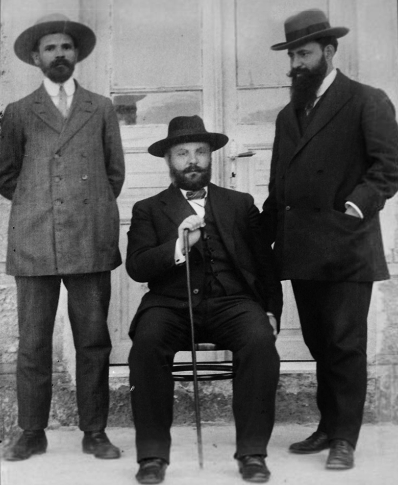 Menachem Ussishkin, Benzion Mosinzon & Chaim Bograshov.